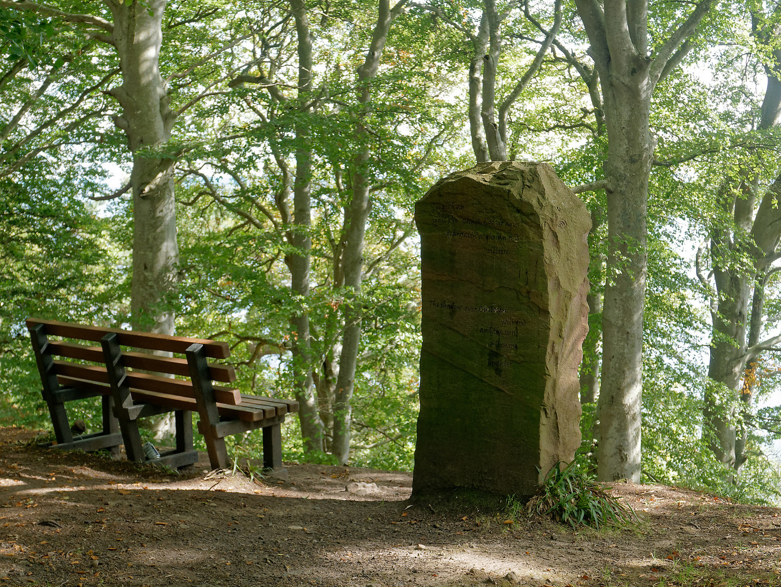 Brahan Seer Stone in Craig Wood. The stone lies beside the path that was once the Fortrose to Avoch railway line. It is inscribed in both English and Gaelic with the words "The shadow over Culloden will rise and the sun will shine brighter".